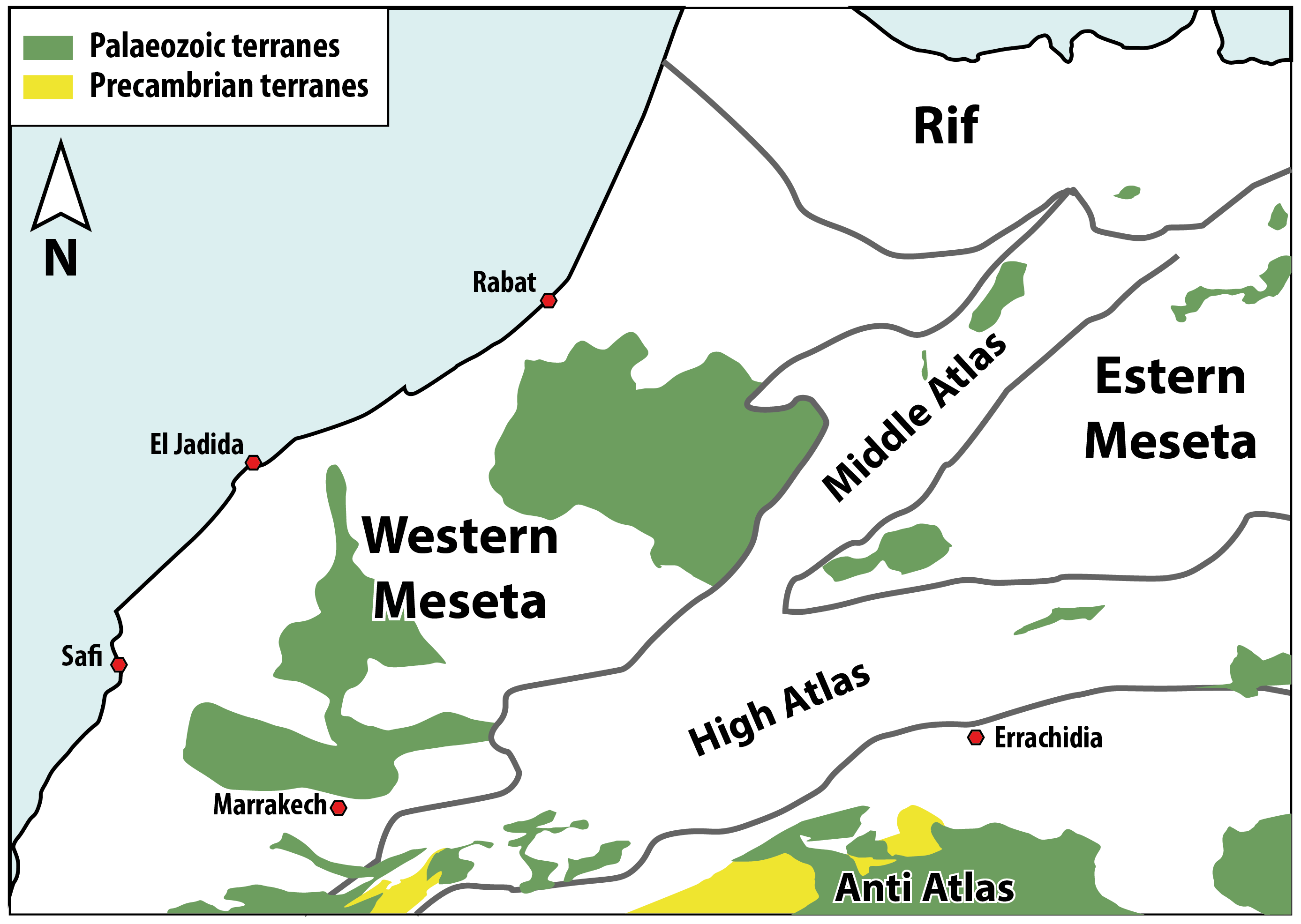 Structural map of the Mesetian and Atlasic domains of Morocco, Palaeozoic in green, Precambrian in yellow